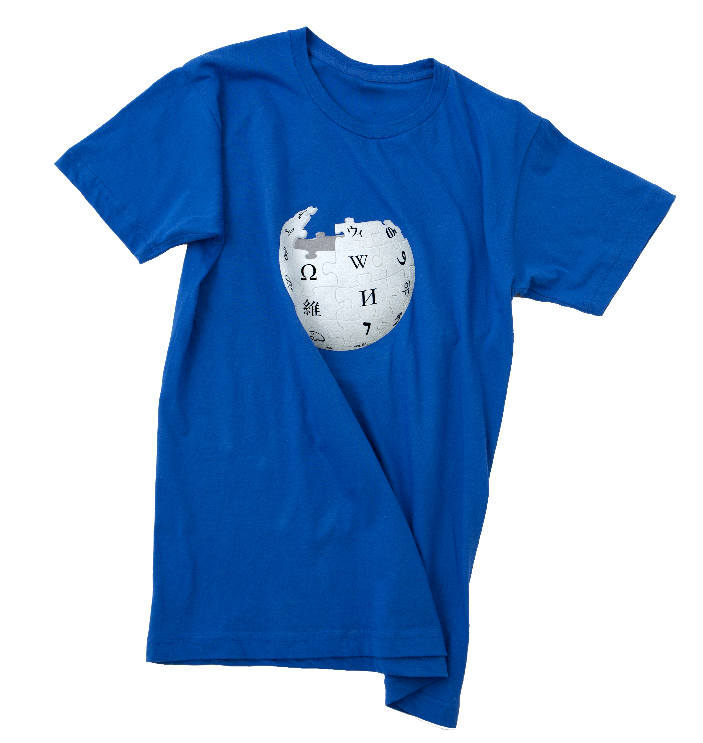 Wikipedia shirt from on plain white background.